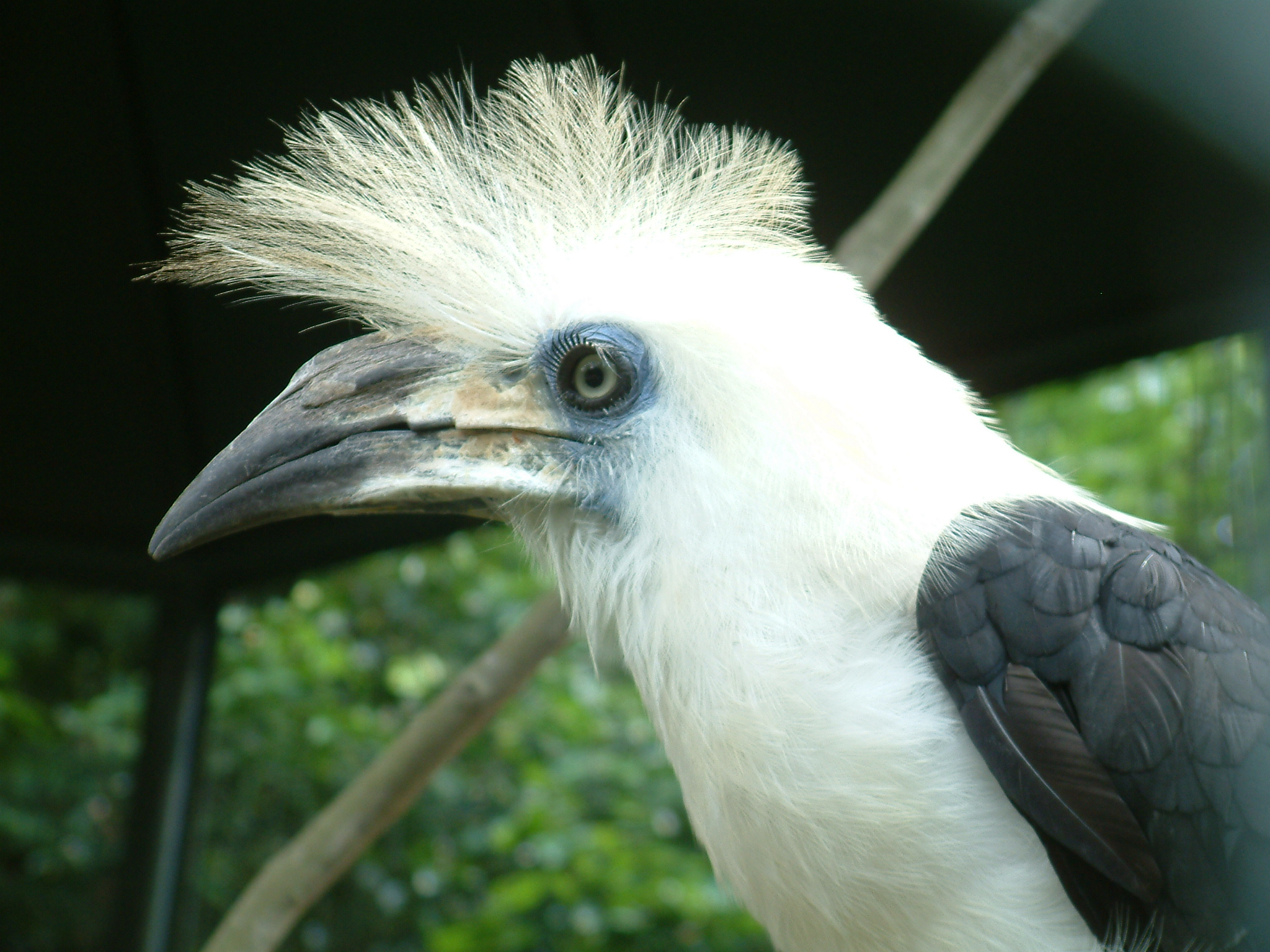 White-crowned Hornbill (Berenicornis comatus, syn. Aceros comatus) at a bird park in Malaysia.